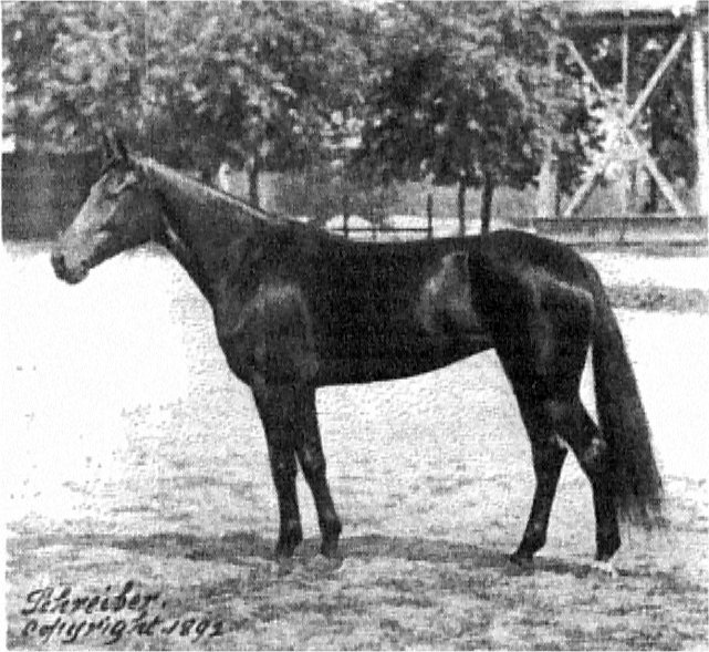 Nancy Hanks, the famous trotting mare in 1892.